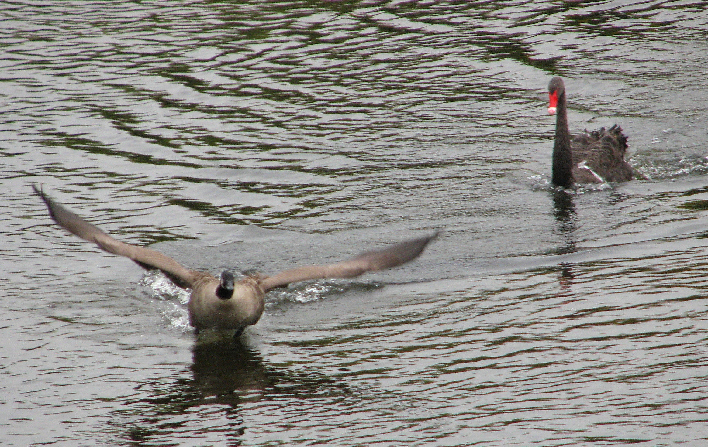 Canada Goose being chased away by Australian Black Swan, in Rideau River by Dutchy's Hole Park, Ottawa, Ontario, Canada